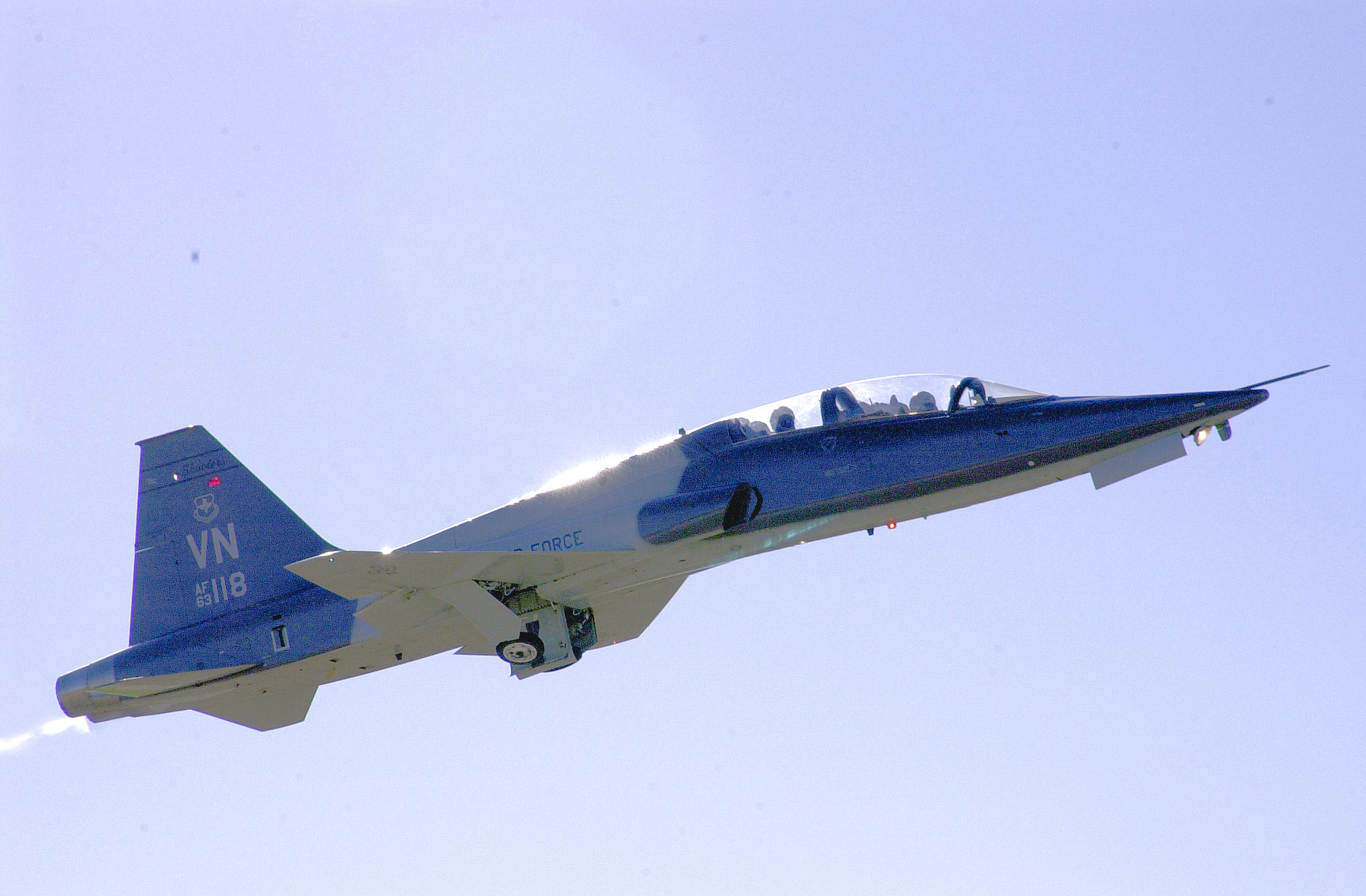 3d Fighter Training Squadron Northrop T-38A-50-NO Talon 63-8118